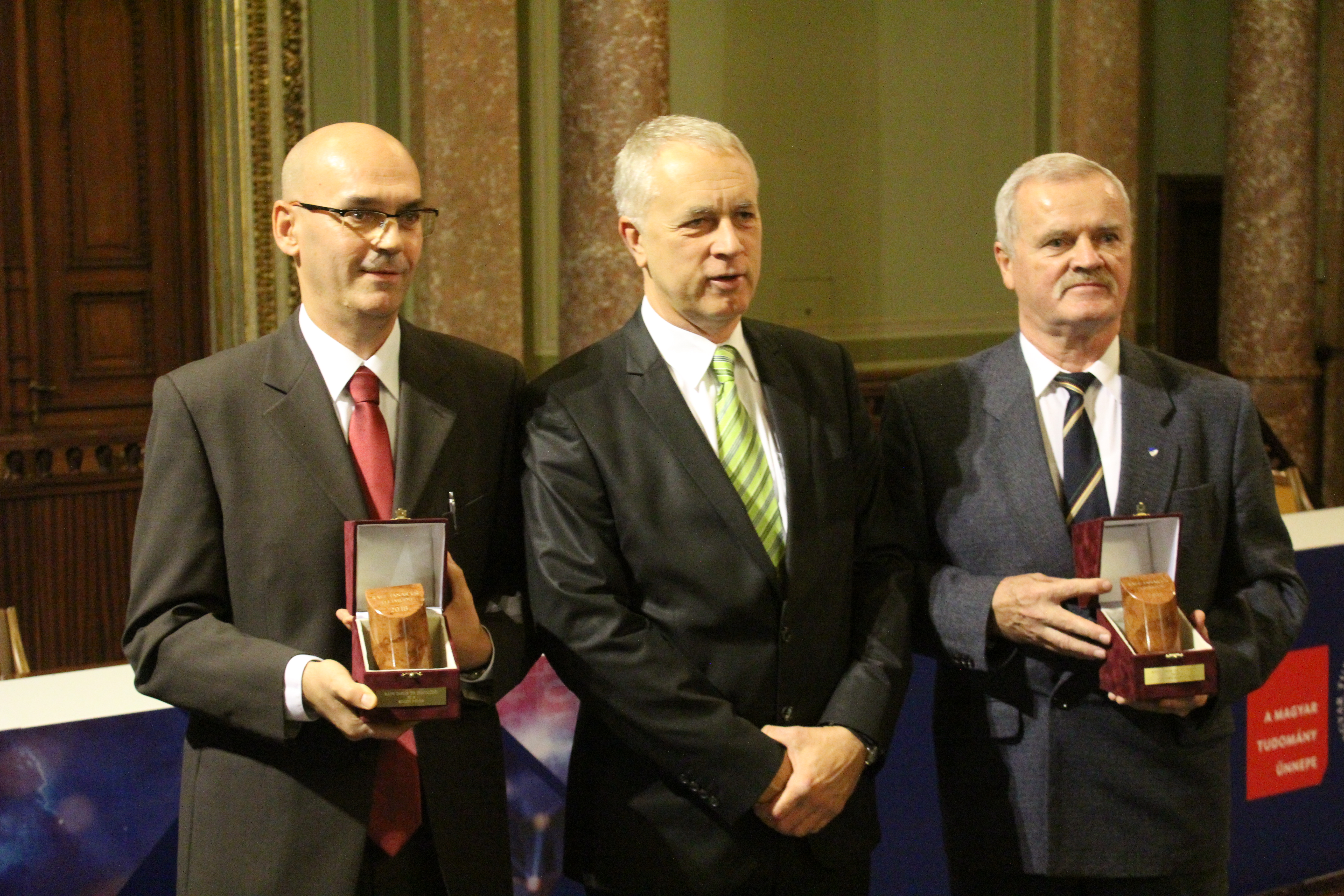 Simon, Péter(left) and Zámborszky, Ferenc (right) with Éry, Gábor